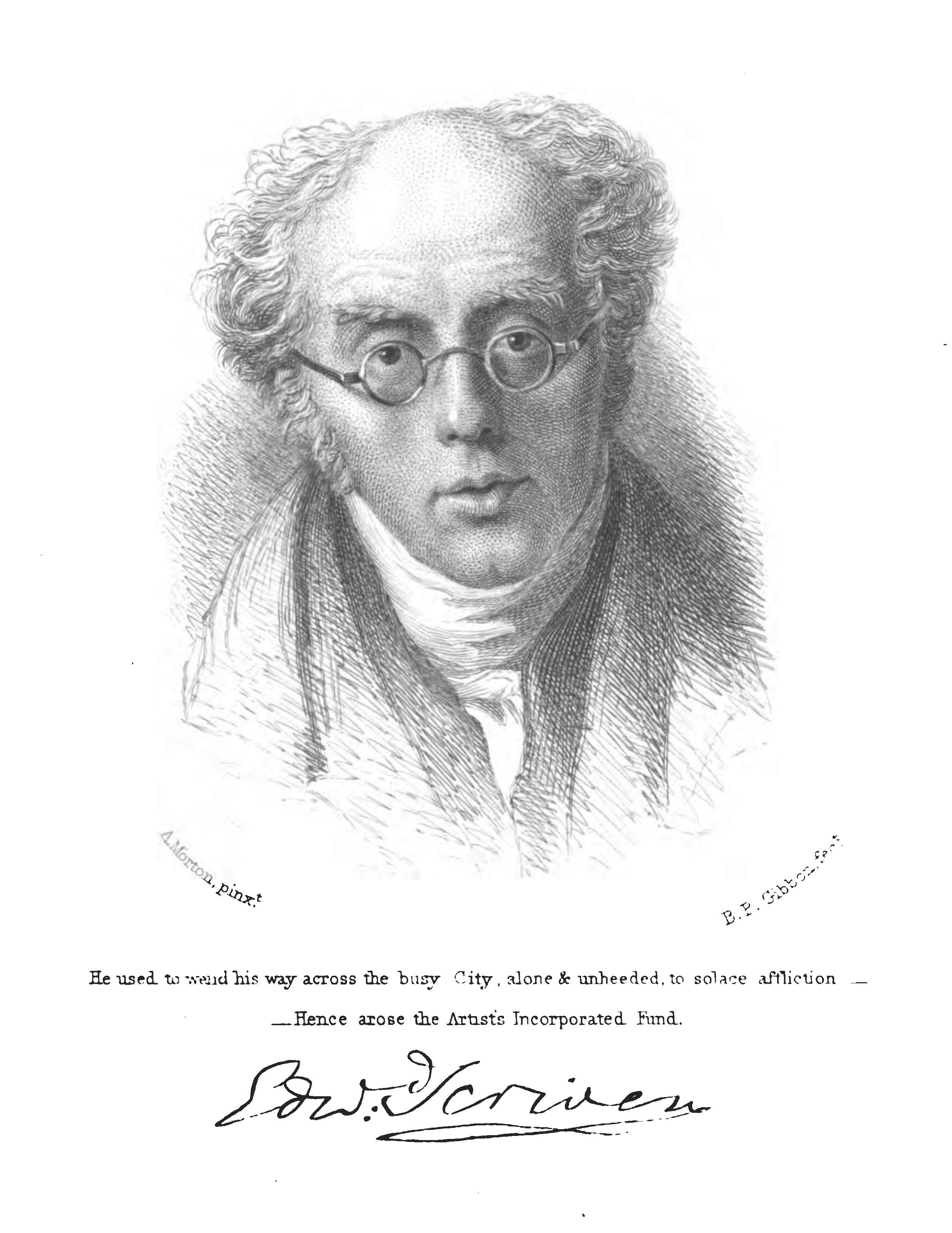 Portrait of Edward Scriven by Benjamin Phelps Gibbon, engraver; after original by Andrew Morton. Page 209 of Pye, John (1845). Patronage of British art, an historical sketch